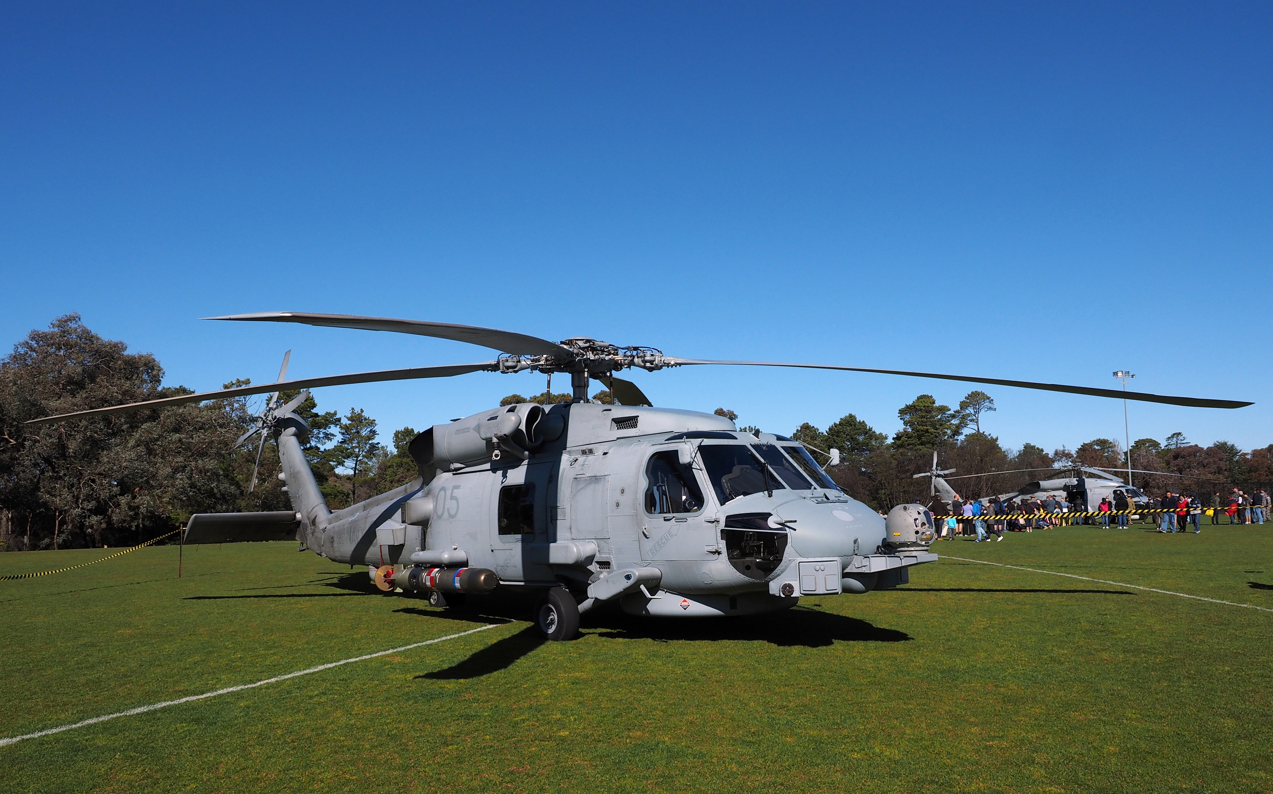 Three quarter view of N48-005 at the 2016 ADFA Open Day